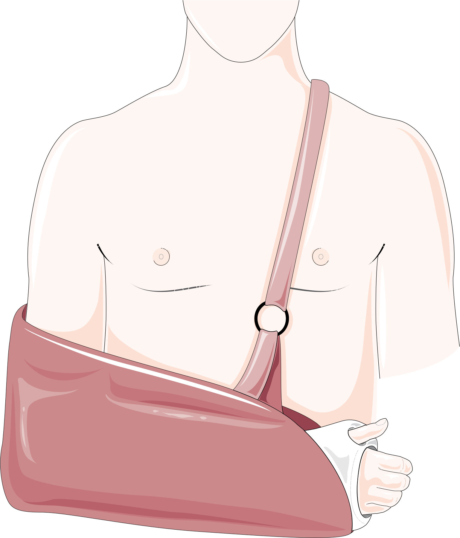 Bone fractures - Orthopedics